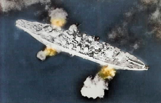 The U.S. Navy battleship USS Pennsylvania (BB-38) firing her 14"/45 and 5"/38 guns while bombarding Guam, south of the Orote Peninsula, on the first day of landings, 21 July 1944.